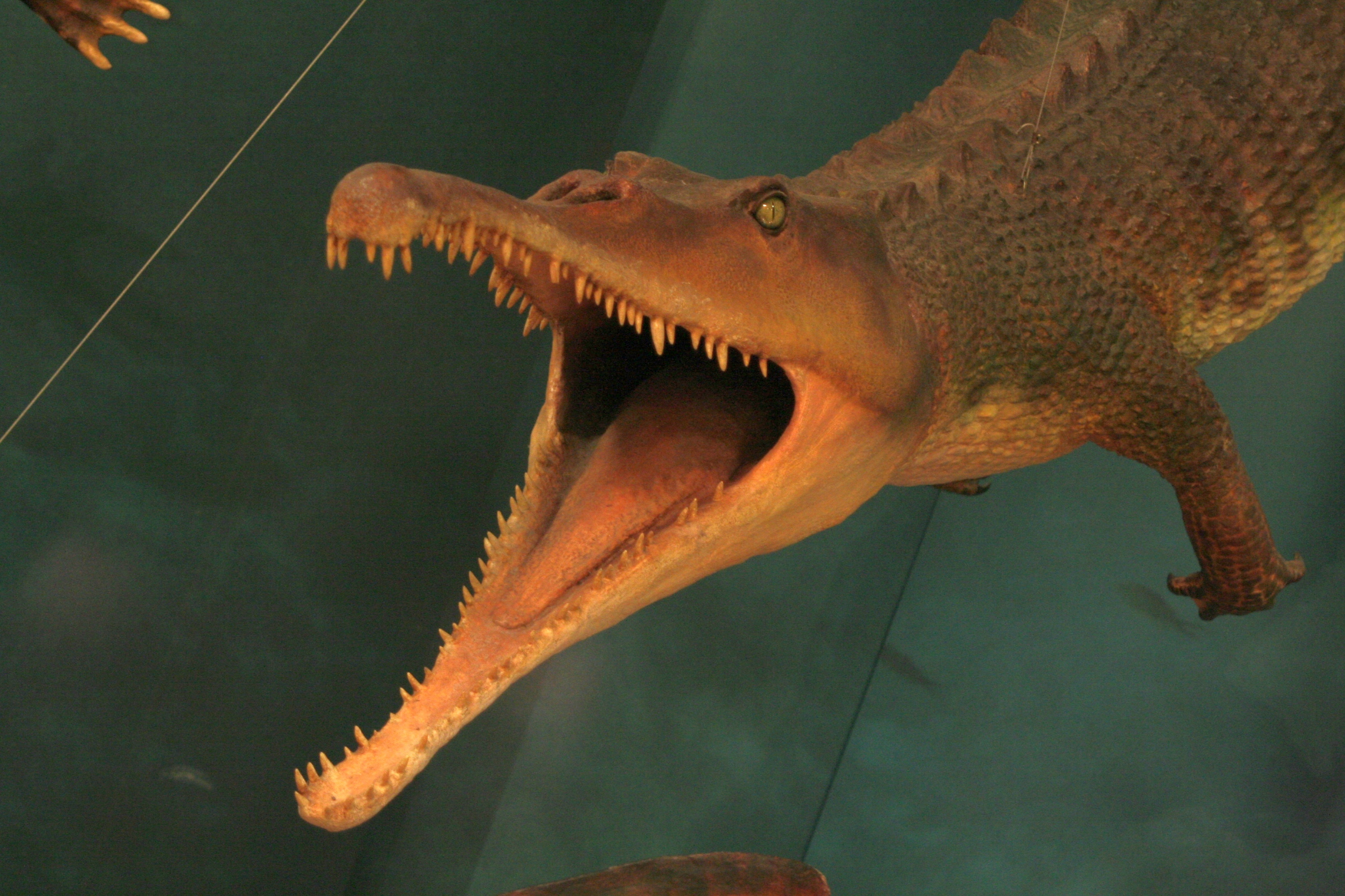 Peloerhinus, Warsaw Museum of Evolution